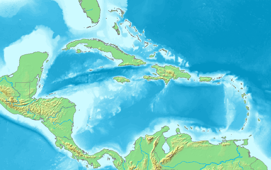 Map of the Caribbean and Central America. Bounding box West -93°, South 7°, East -58°, North 28°. Center at 17°30′00″N 75°30′00″W / 17.50000°N 75.50000°W.